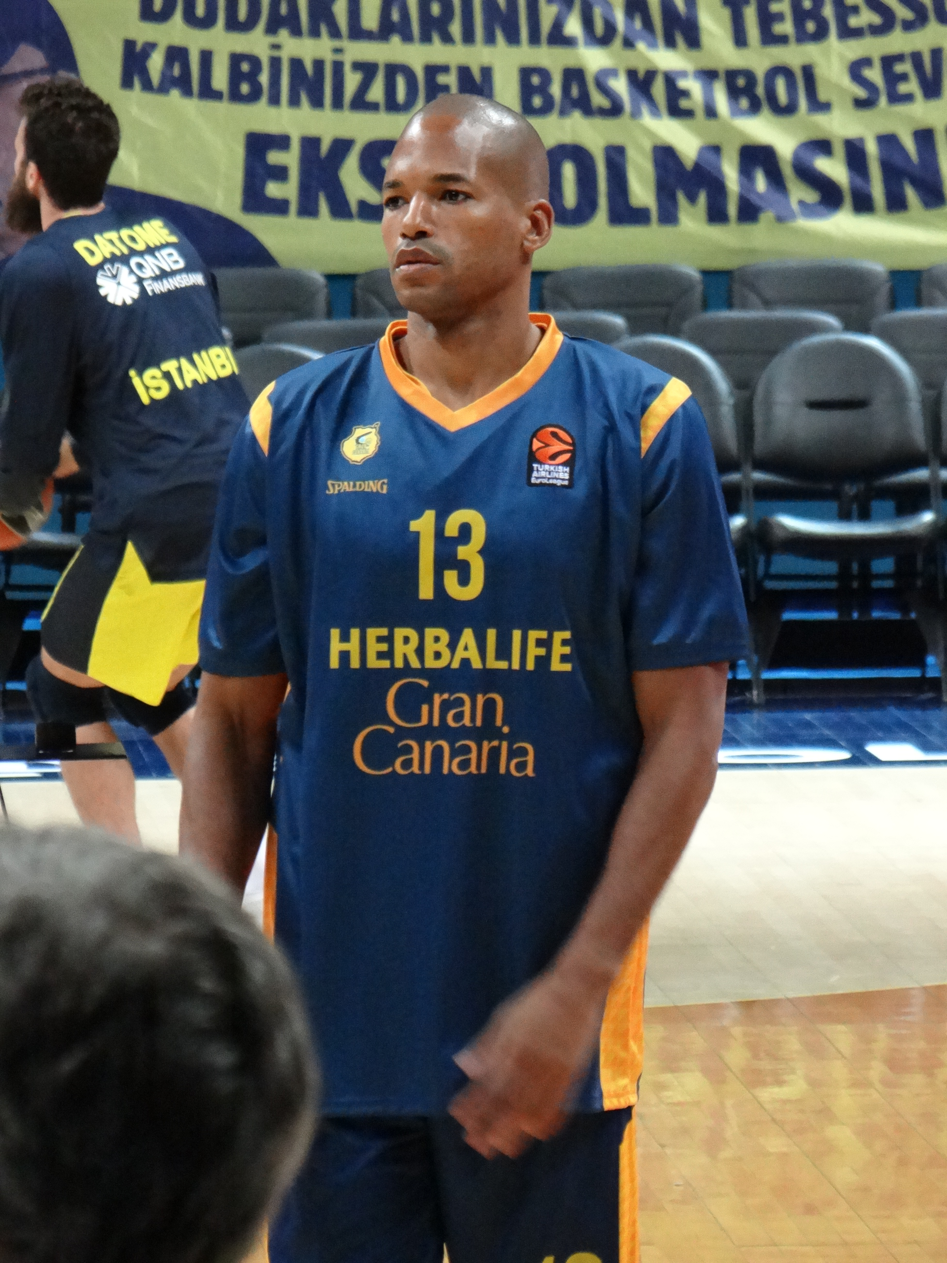 Eulis Báez 13 CB Gran Canaria EuroLeague 20181012